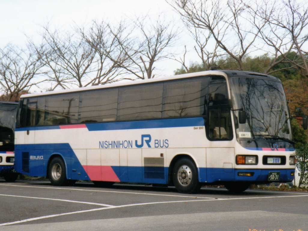 Nishinihon JR Bus 644-9910 Mitsubishi P-MS729SA at Kanachu Yokohama Branch with permission